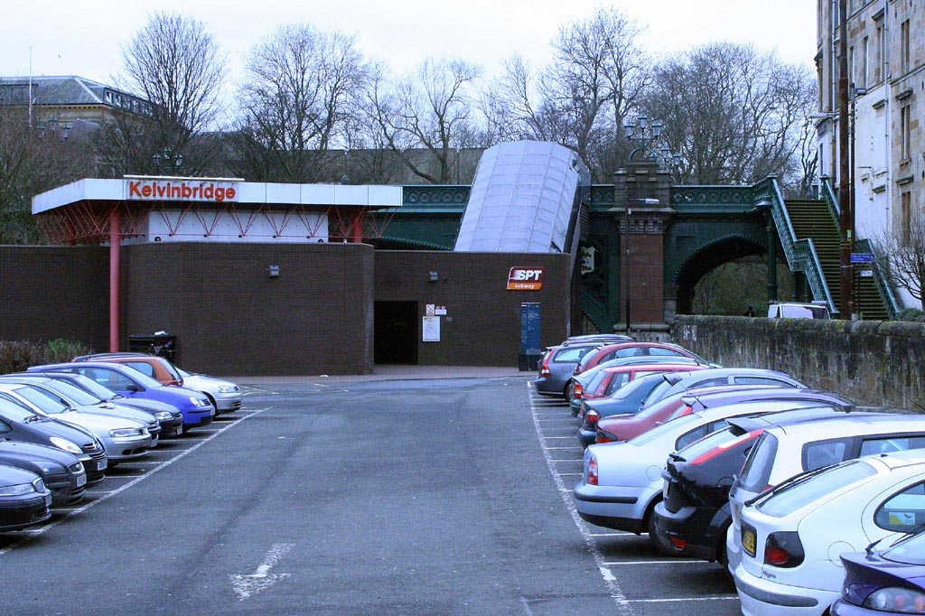 Kelvinbridge subway station